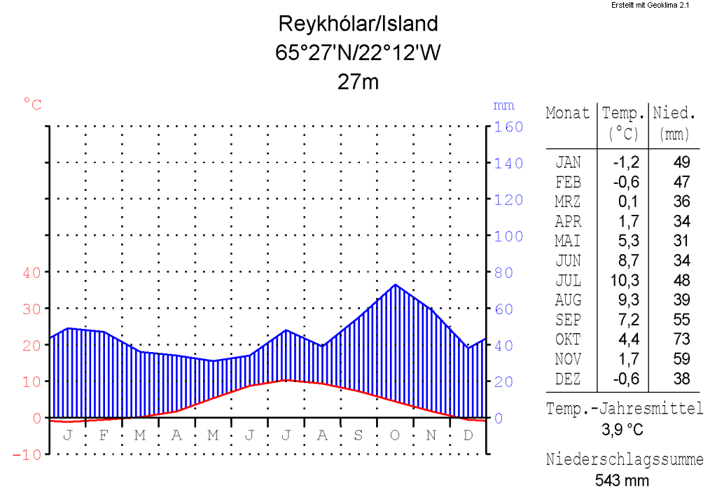 climate chart in the format by Walter and Lieth, metric, °Celsisus and millimeters, made with Geoklima 2.1